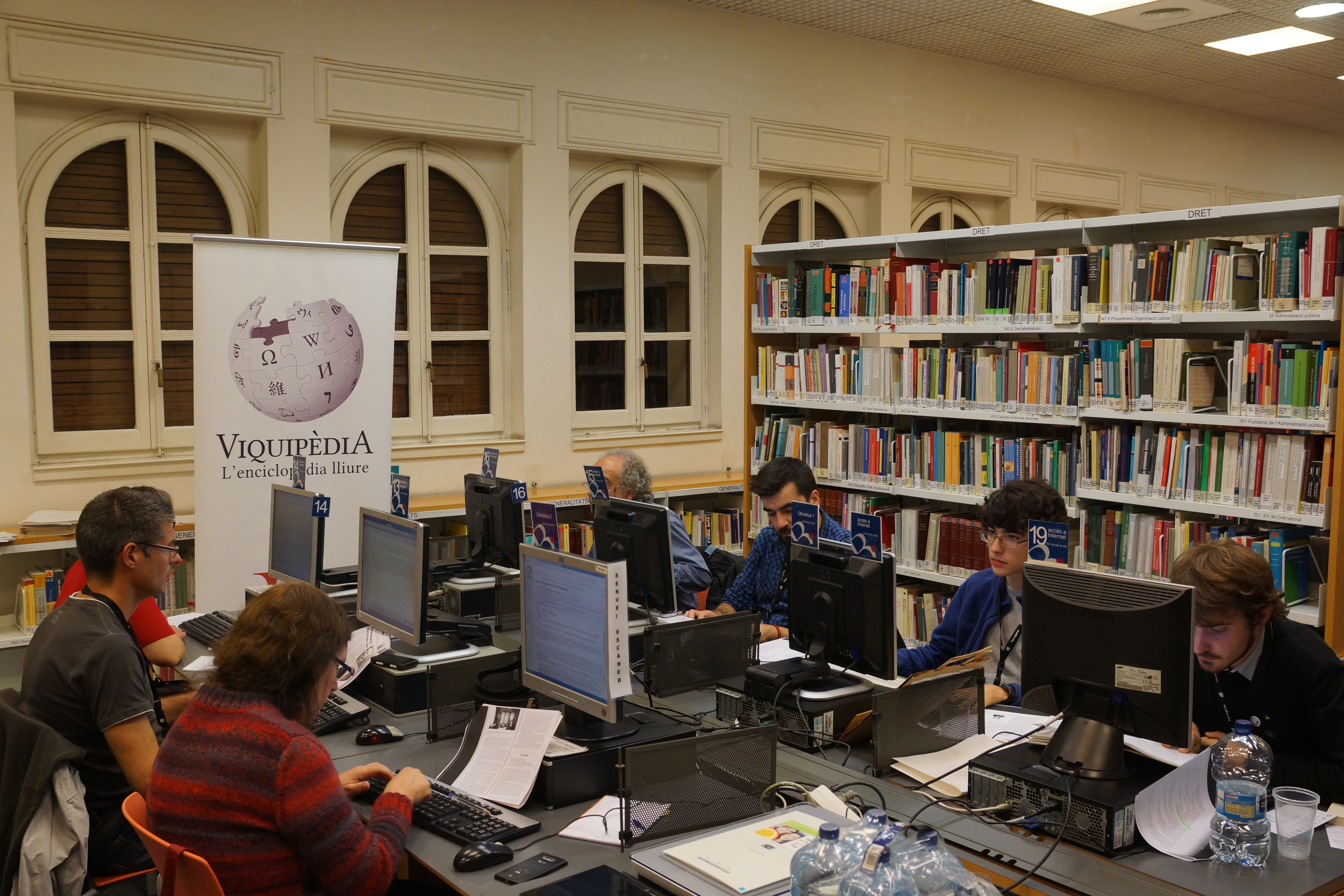 Tarragona (Biblioteca Pública de Tarragona), Catalonia: Hackaton at the Catalan Viquitrobada 2014